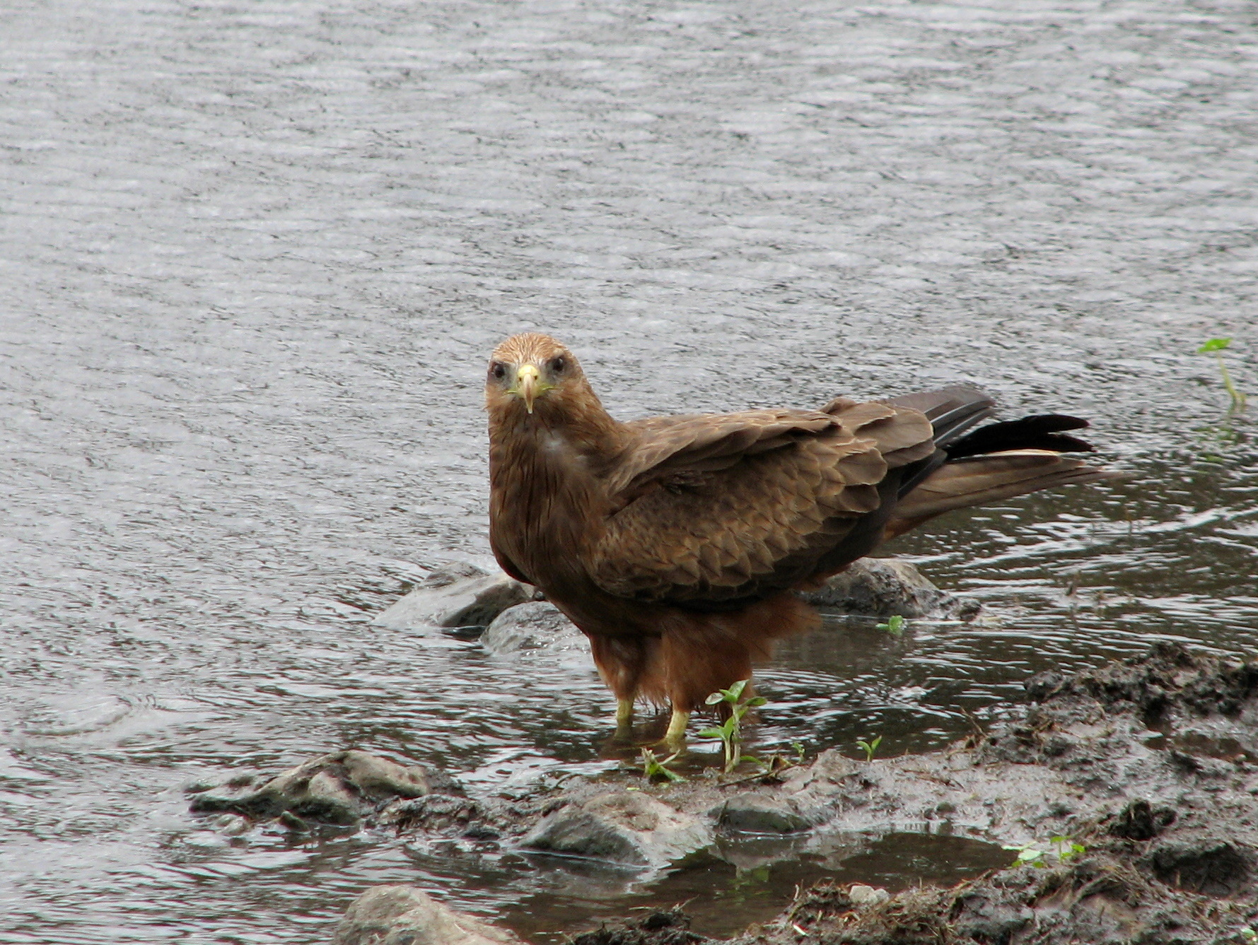 Black Kite (Milvus aegyptius parasitus) drinking, Ngorongoro Conservation Area, Tanzania